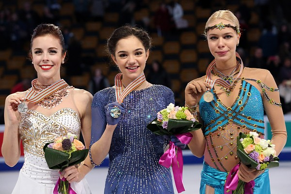 The ladies podium at the 2016 World Figure Skating Championships.From left: Ashley Wagner (2nd), Evgenia Medvedeva (1st), Anna Pogorilaya (3rd).